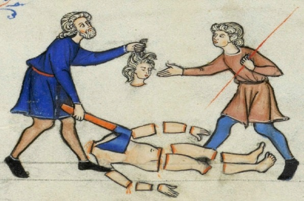 The_Levite_and_the_concubine